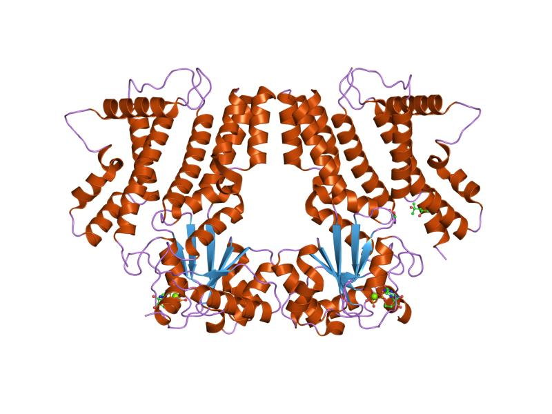 Cartoon representation of the molecular structure of protein registered with 1tpz code.